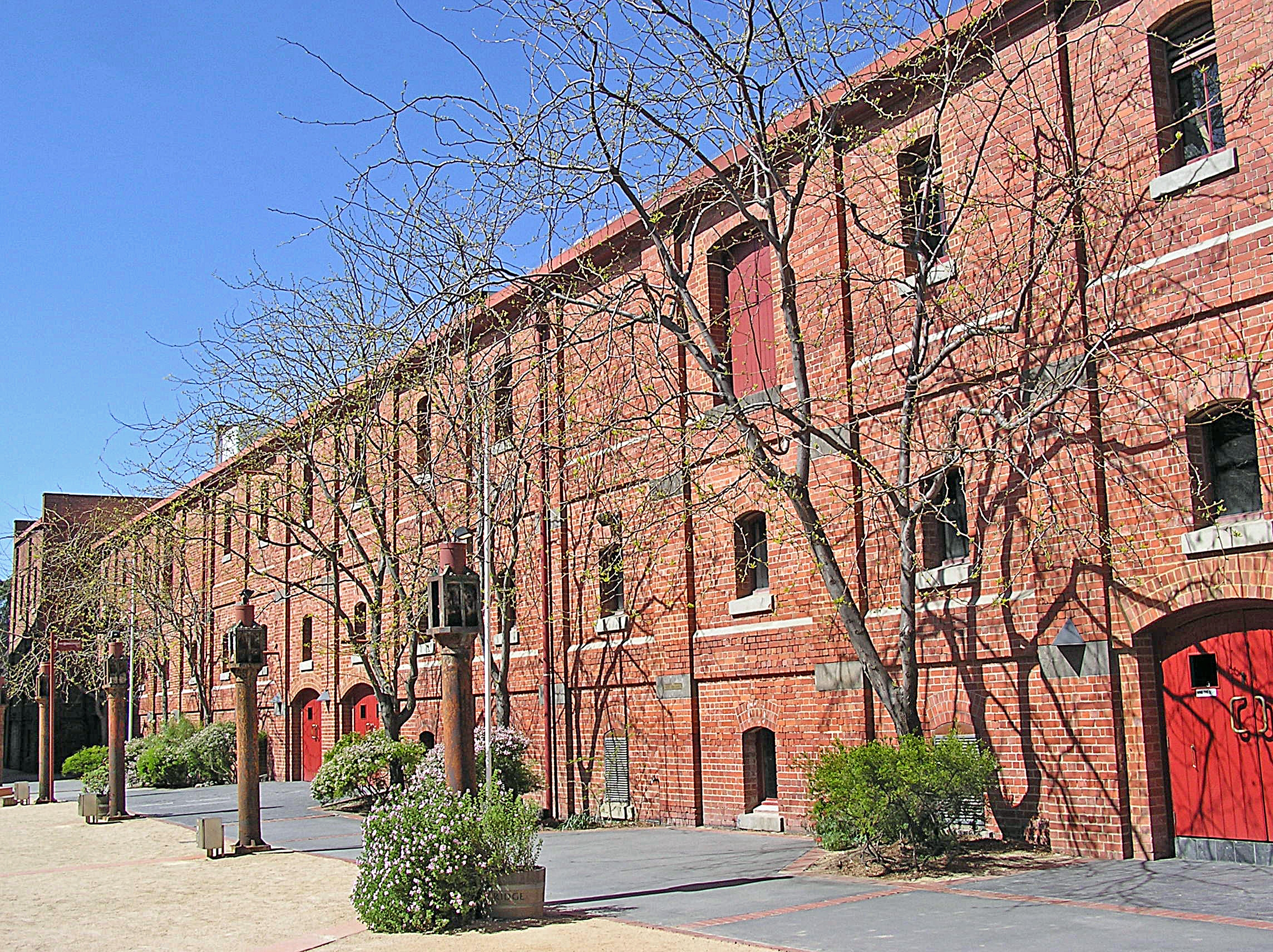 Malthouse Theartre (Contemporary Australian Theatre) in Southbank, Melbourne